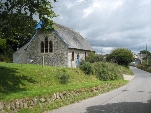 Community centre, Porkellis, Cornwall. Built in the 19th century as St Christopher's chapel, a chapel of ease for Carnmenellis. Since converted into a community centre.